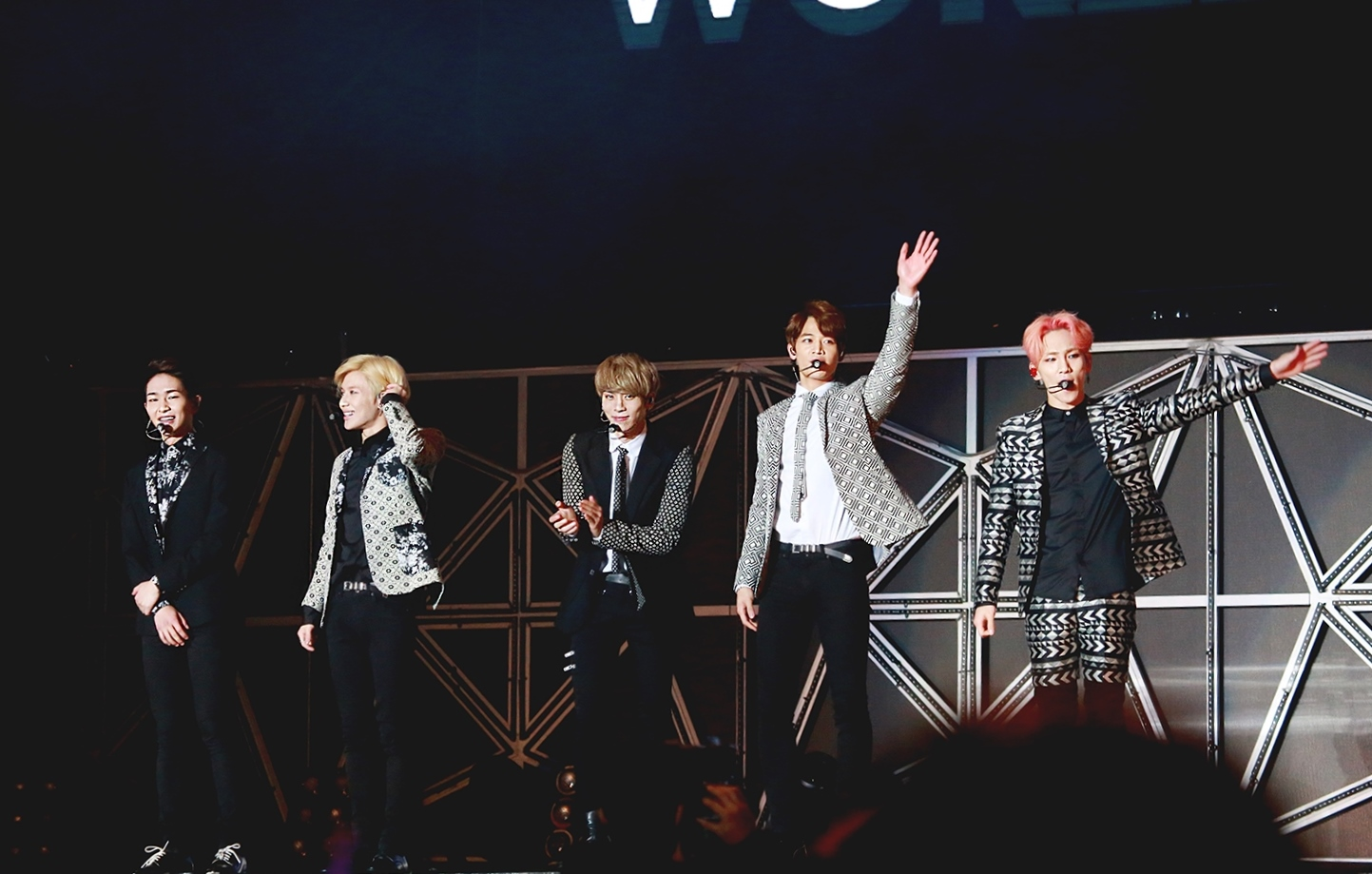 Shinee at the SMTown Live World Tour IV in Taiwan in Mach 21, 2015.